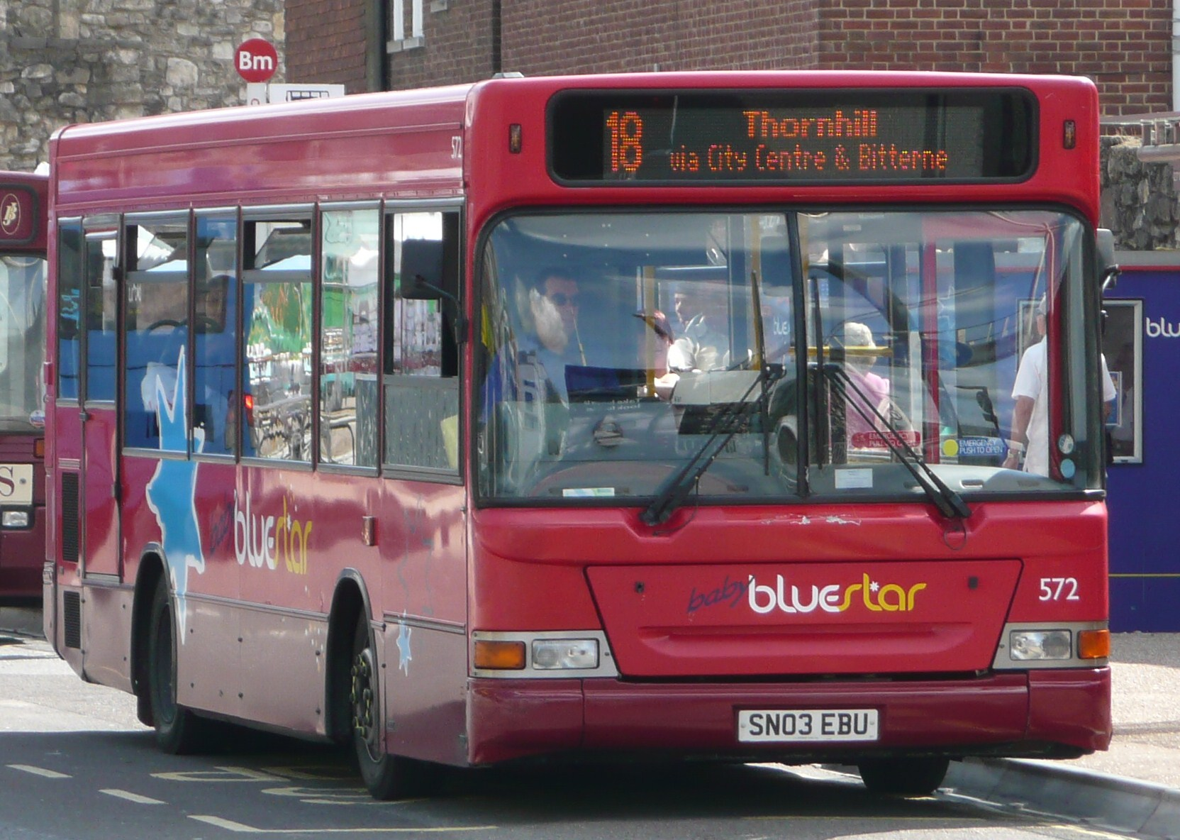 Bluestar's 572 (SN03 EBU), a Dennis Dart SLF/Plaxton Pointer MPD in Southampton, on route 18. It is still in base Red Rocket livery, with Baby Bluestar branding.